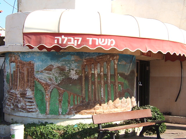 The Lebanon building in Tel Aviv old Levant fair ground